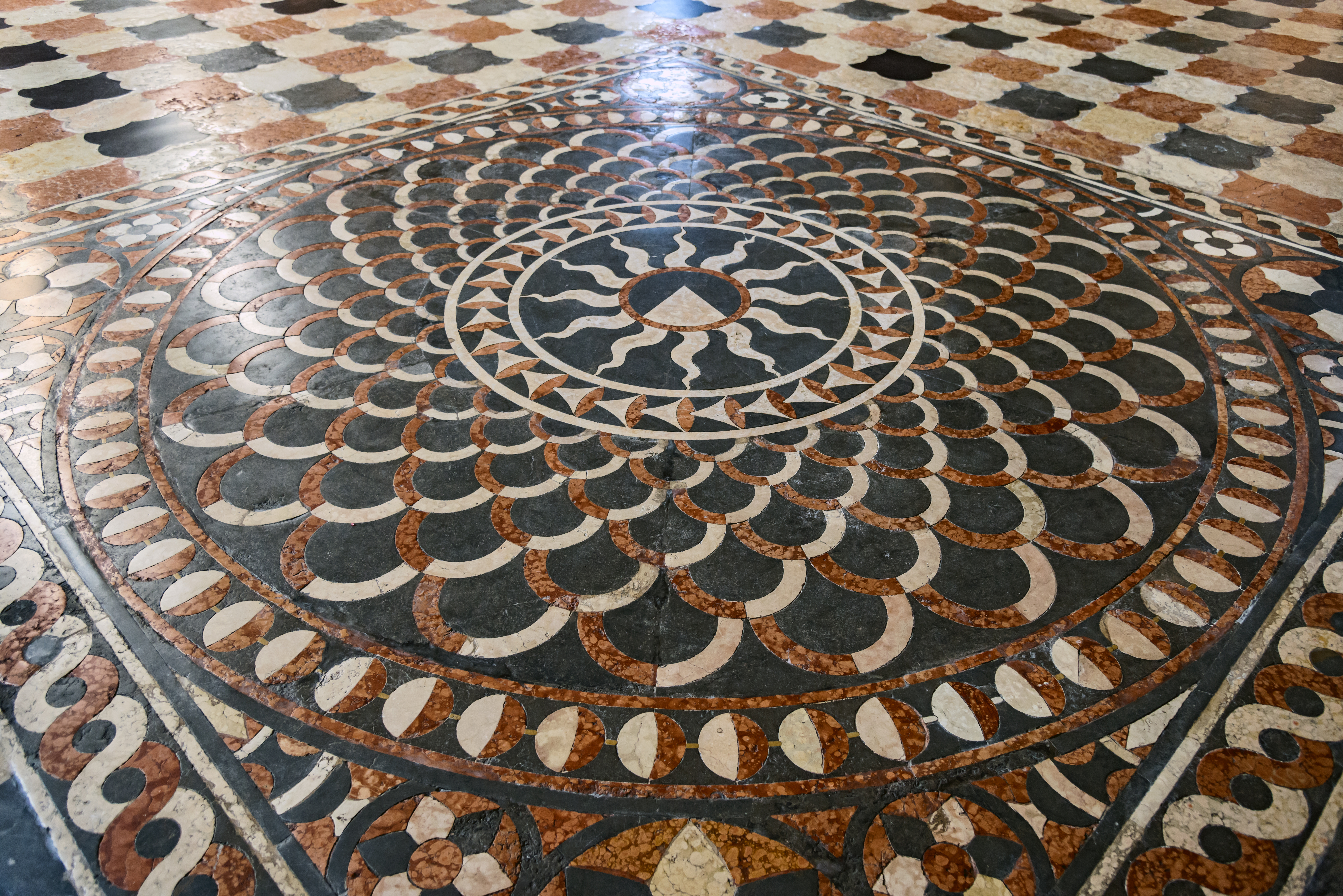 Basilica Santa Anastasia. The floor was started in 1462 in black and white, reminiscent of the colors of the robes of Dominican friars, and red for the blood of the martyr Peter of Verona. In the nave front of the choir, a rose is observed with the center arms of the Dominicans.